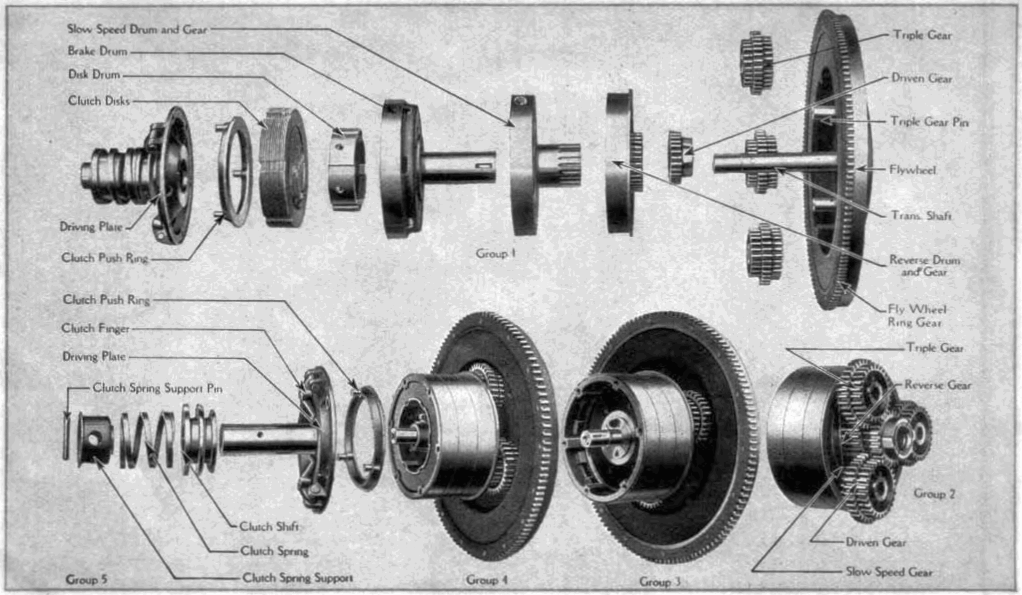 transmission parts